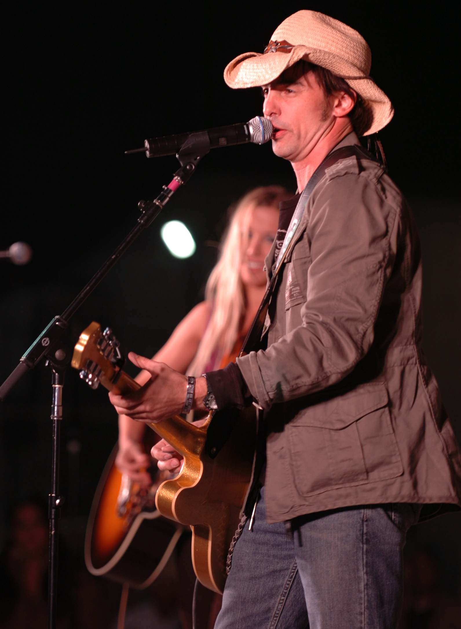 CAMP ARIFJAN, Kuwait – Country music singer Keni Thomas performs on camp Thursday in front of more than 2,000 elated servicemembers during the USO Sergeant Major of the Army’s 2006 Hope and Freedom Tour. Thomas is touring with country music singers Mark Wills, Darryl Worley, hip-hop artists The Washington Projects, comedian Al Franken, sports commentator Leeann Tweeden and members of the Dallas Cowboy Cheerleaders. Camp Arifjan was the first show for the tour which will travel to Iraq next. Lt Gen R. Steven Whitcomb, Third Army/U.S. Army Central commander welcomed the tour to Kuwait and stressed the importance of the work being done in support of the war in Iraq.